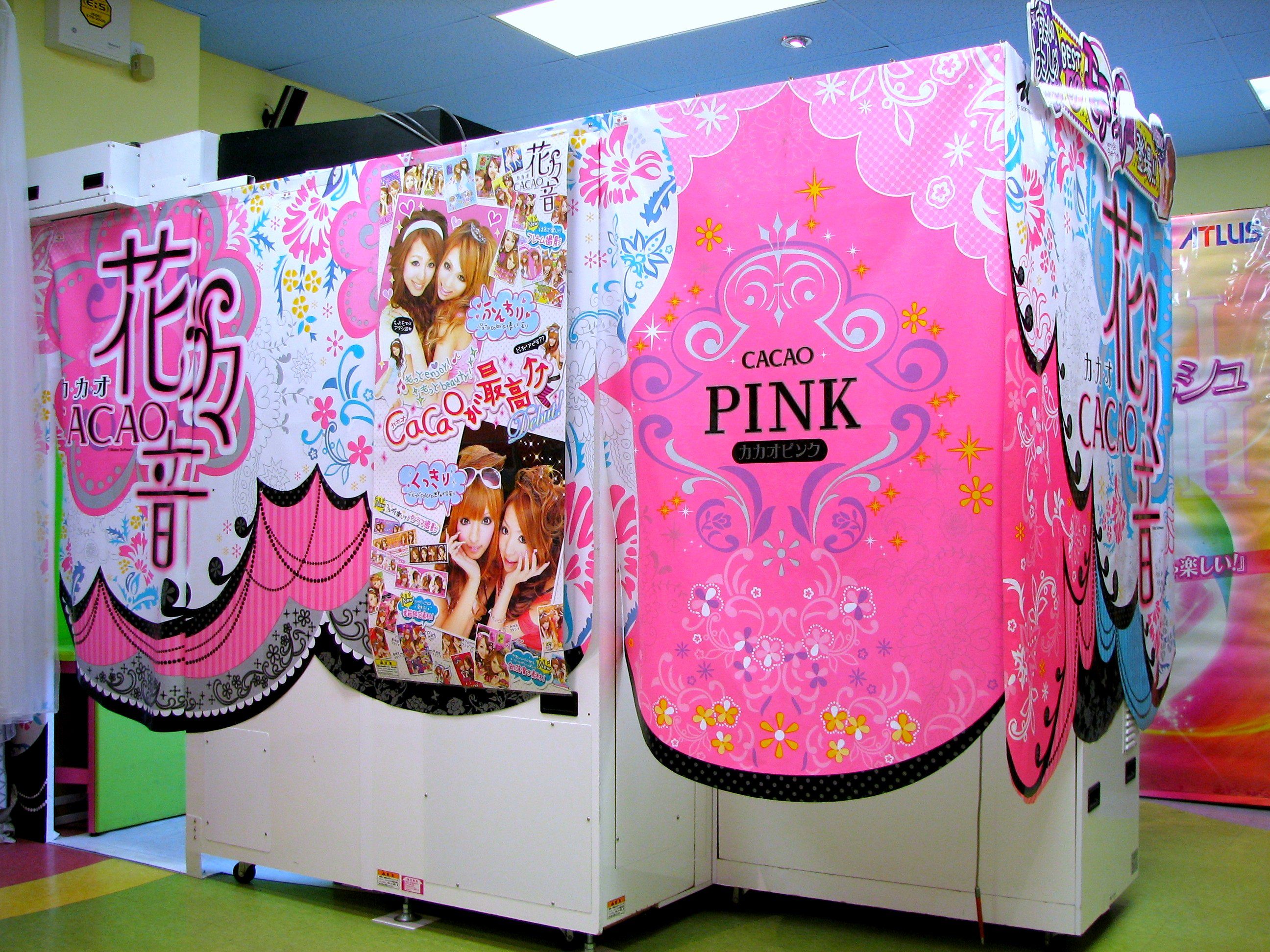 Purikura Machine called Cacao located at Pixel Memory Studio in Los Angeles